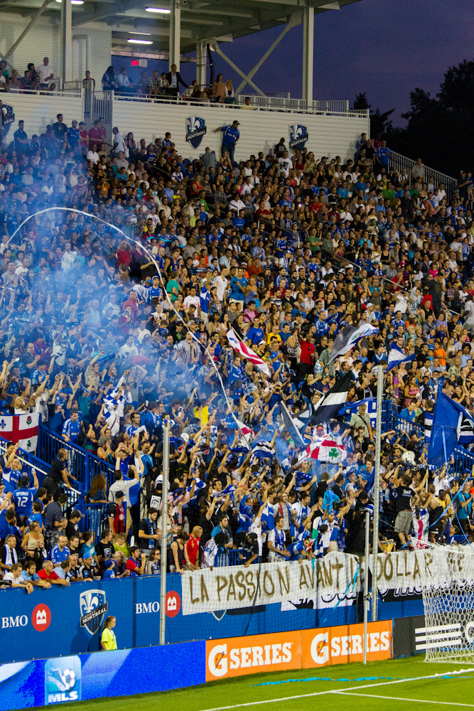 Ultras Montréal, supporters of Montreal Impact, celebrate a goal in a 3-1 Montreal win over the New York Red Bulls on 28 July 2012 at Stade Saputo.